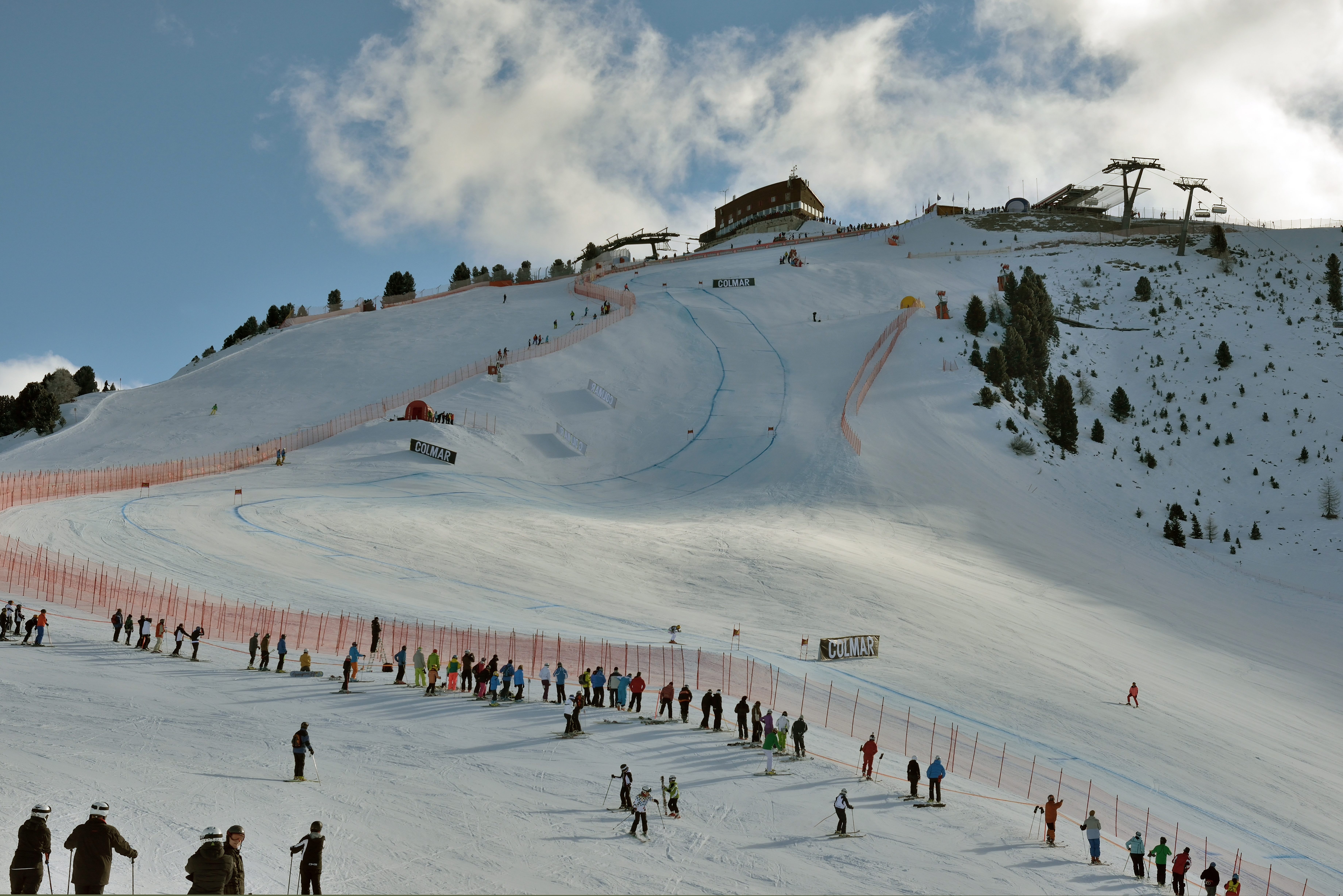 Starting racetrack for downhill Fis Ski World Cup Val Gardena-Gröden - 46th Saslong Classic in Gröden